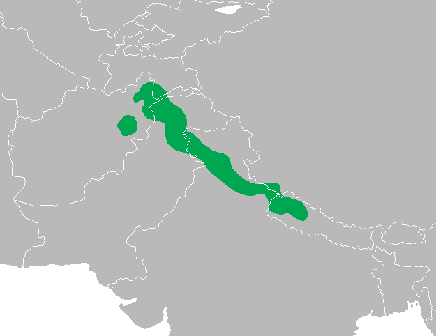 Himalayan Woodpecker(Dendrocopos himalayensis) distribution map